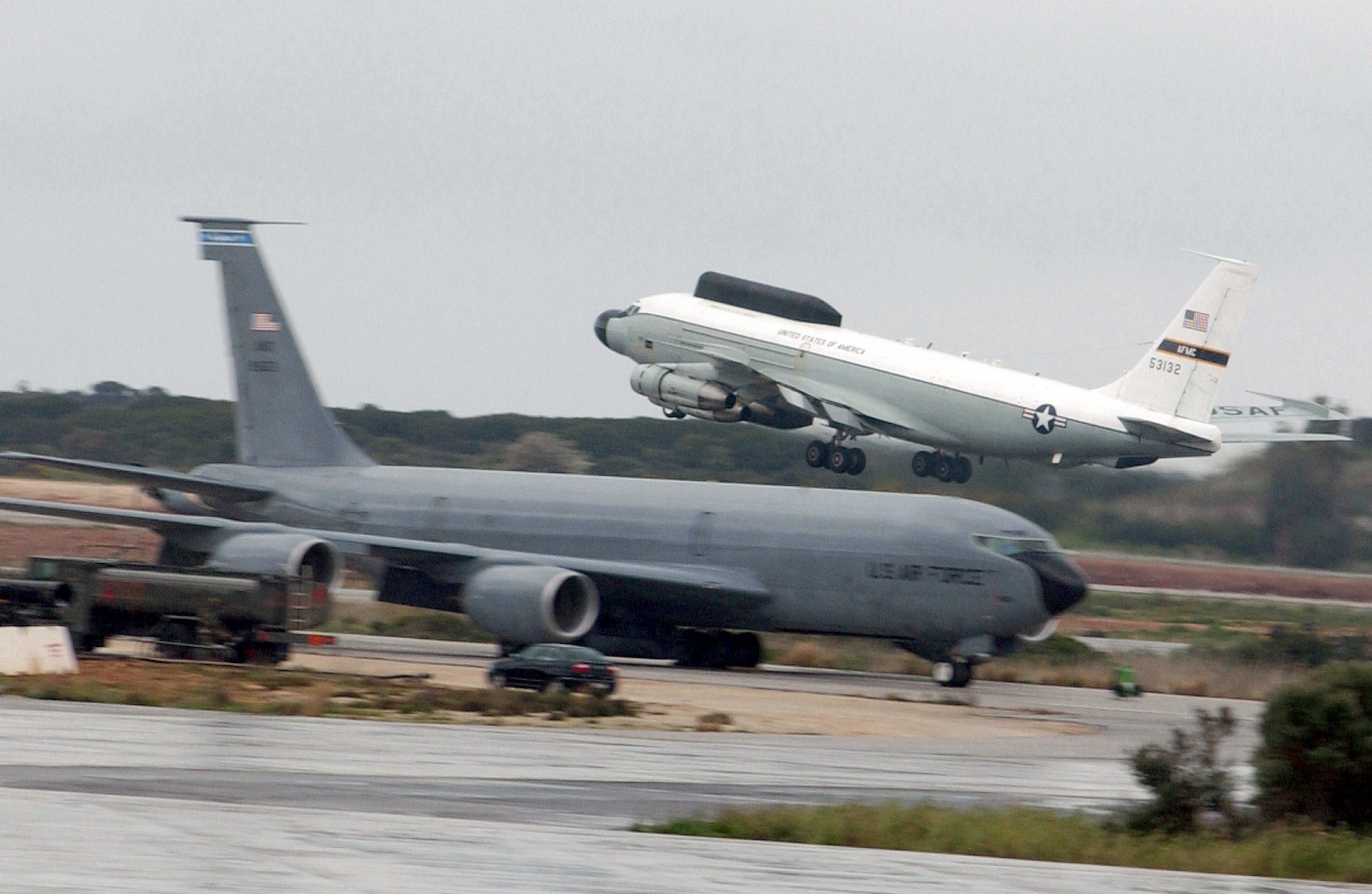 A US Air Force (USAF) NKC-135 "Big Crow" Multi-Service Electronic Countermeasures (ECM) aircraft takes off from a forward-deployed operating base, while a KC-135R Stratotanker refueling aircraft tops off its fuel tanks, in support of Operation IRAQI FREEDOM. Location: Unknown